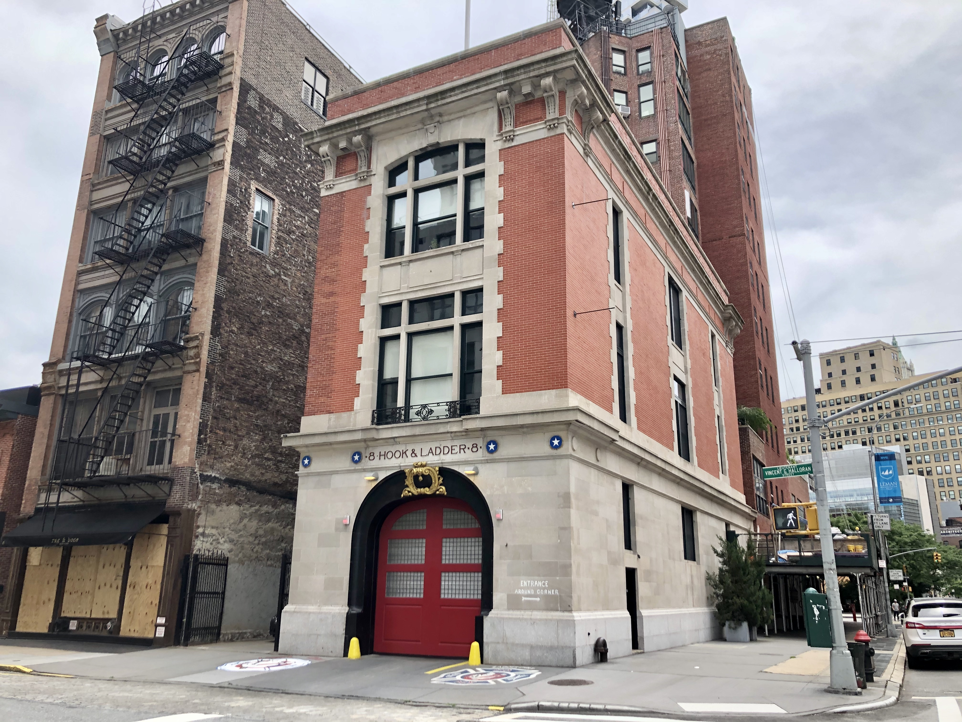 Realistic, unfiltered image of the Ghostbusters Firehouse (Hook & Ladder No. 8) in Manhattan. Photo by Chris6d